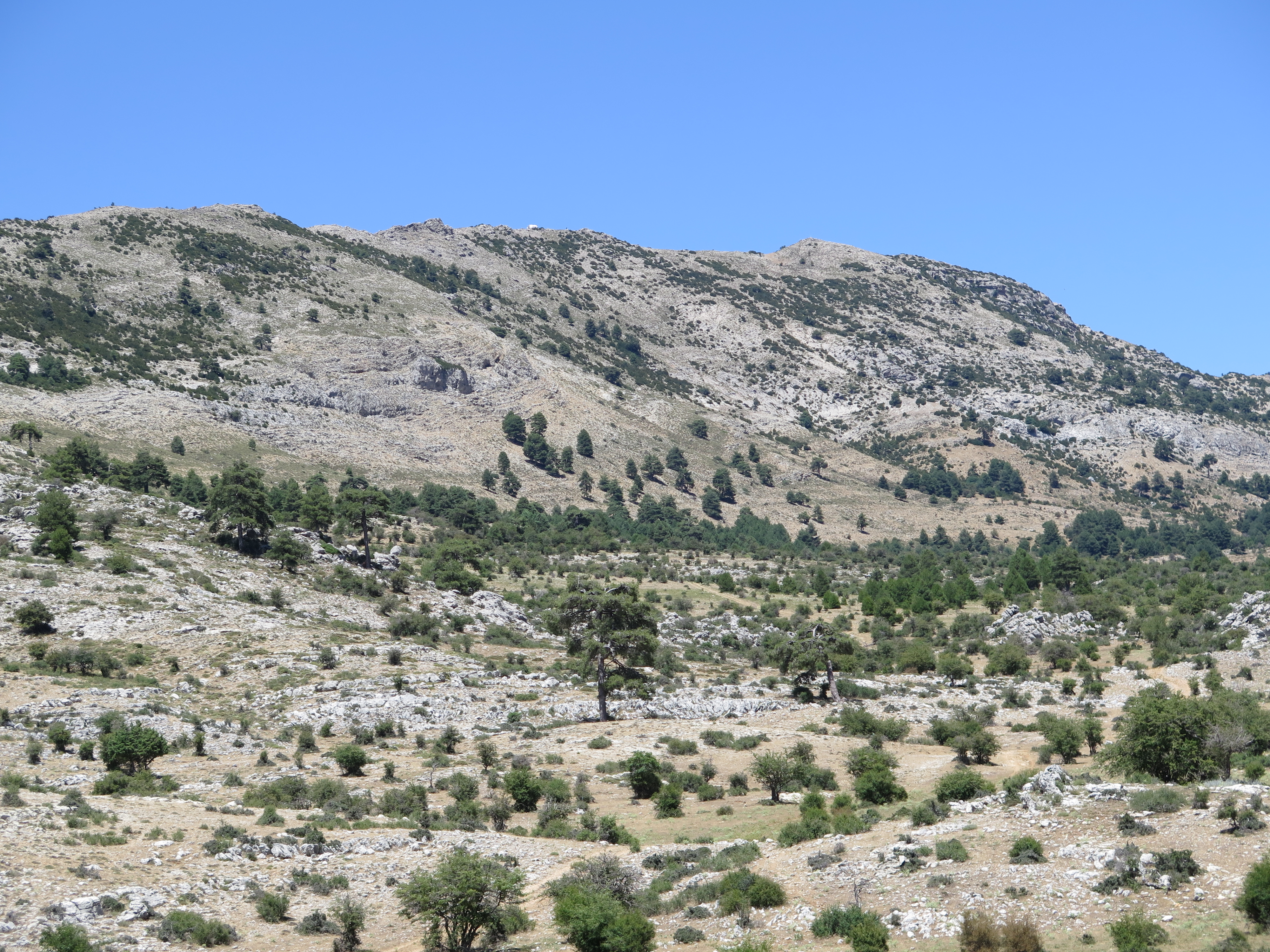 East mountains side of Las Banderillas.